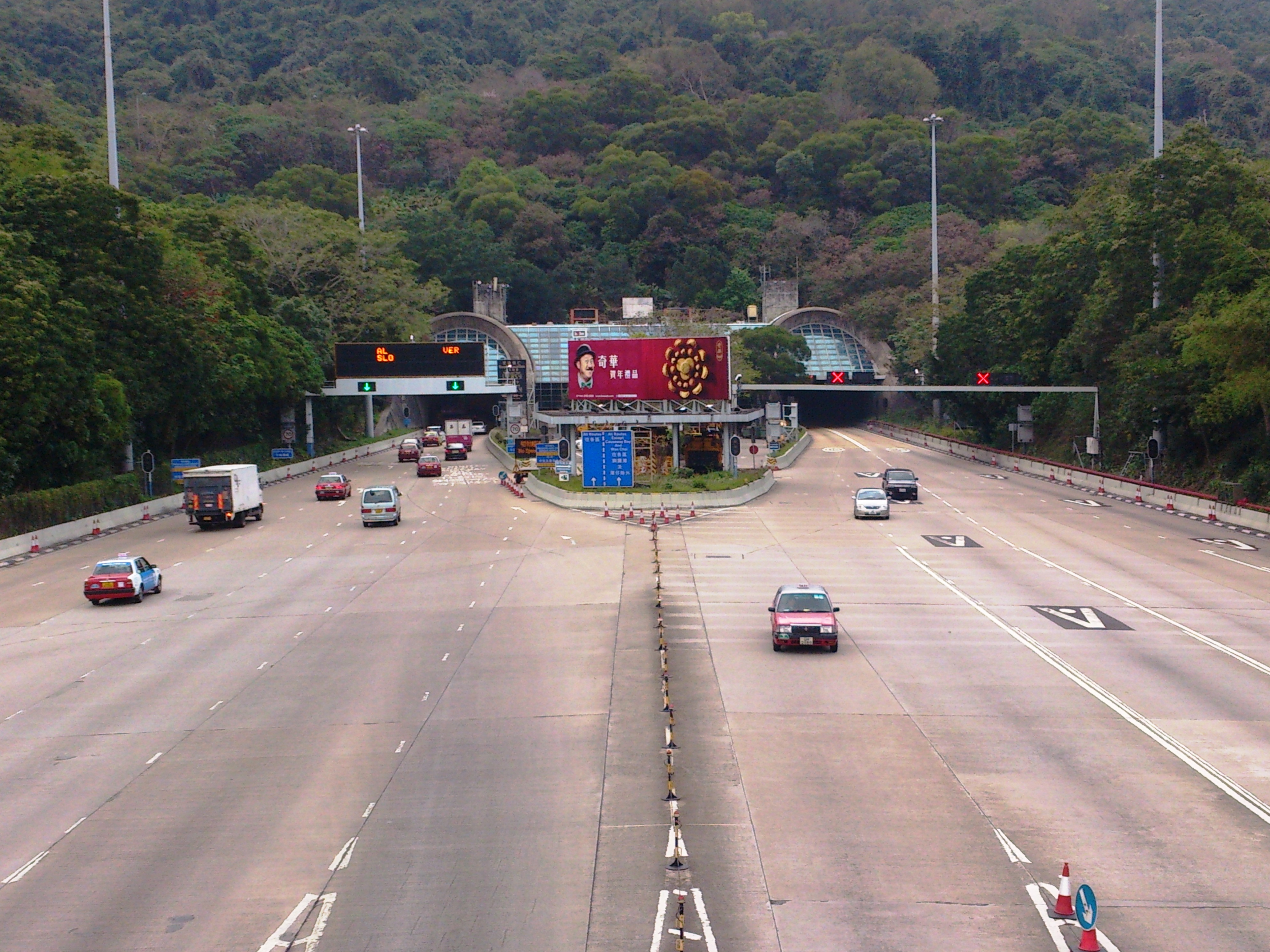 South Entrance of Aberdeen Tunnel